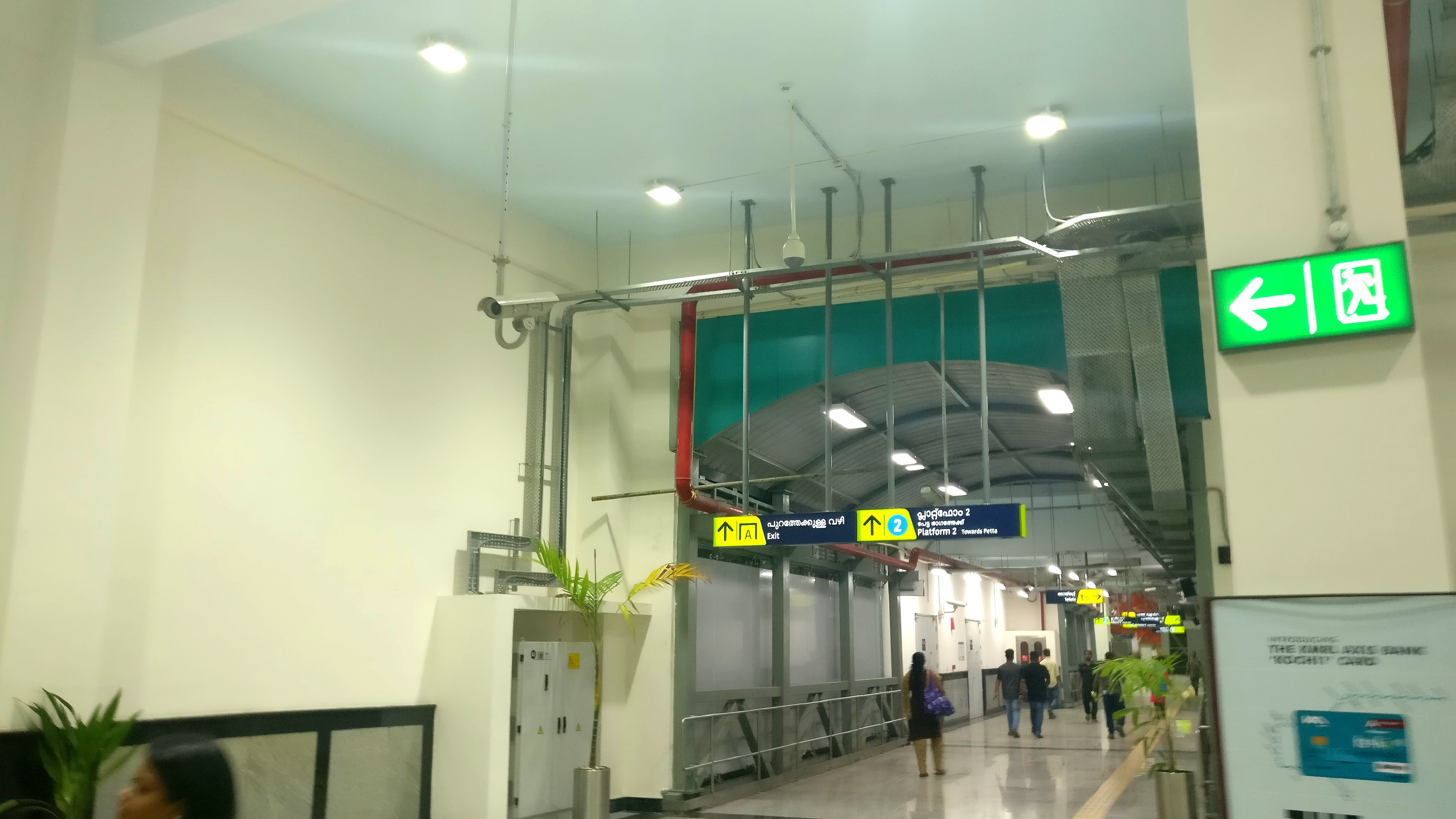 Kochi Metro was inaugurated by PM Narendra Modi and CM Pinarayi Vijayan on 17th June 2017.